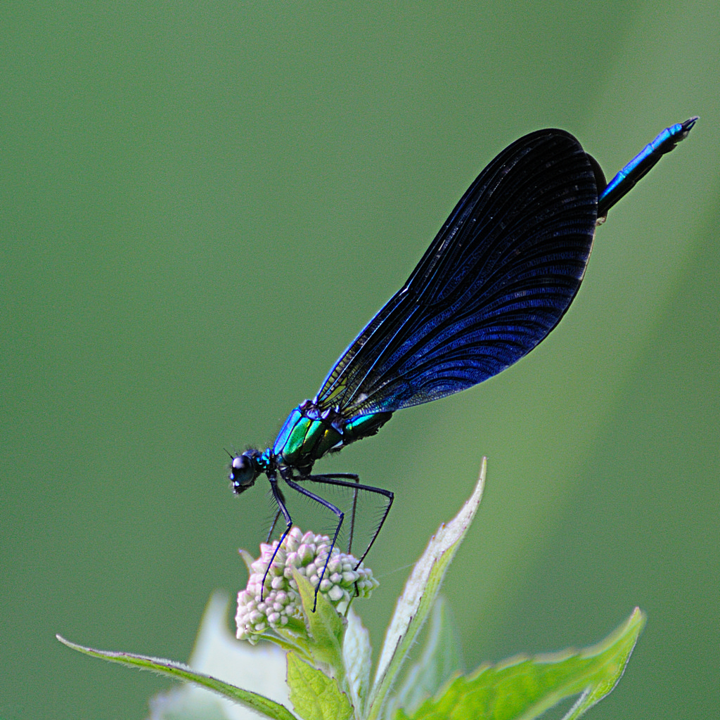 Male Beautiful Demoiselle (Calopteryx virgo)